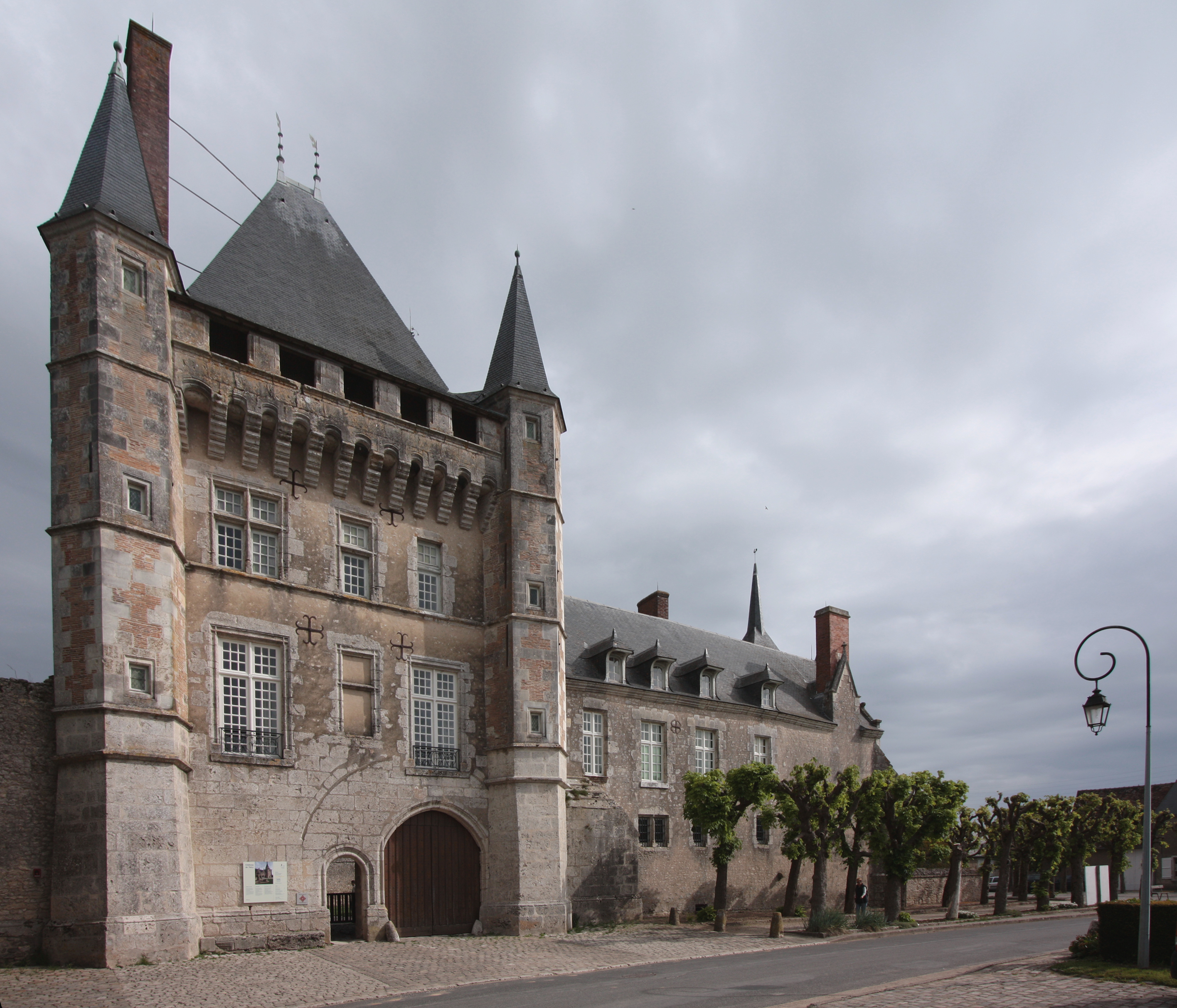 Front of the Castle of Talcy, located in the county of Loir et Cher/France